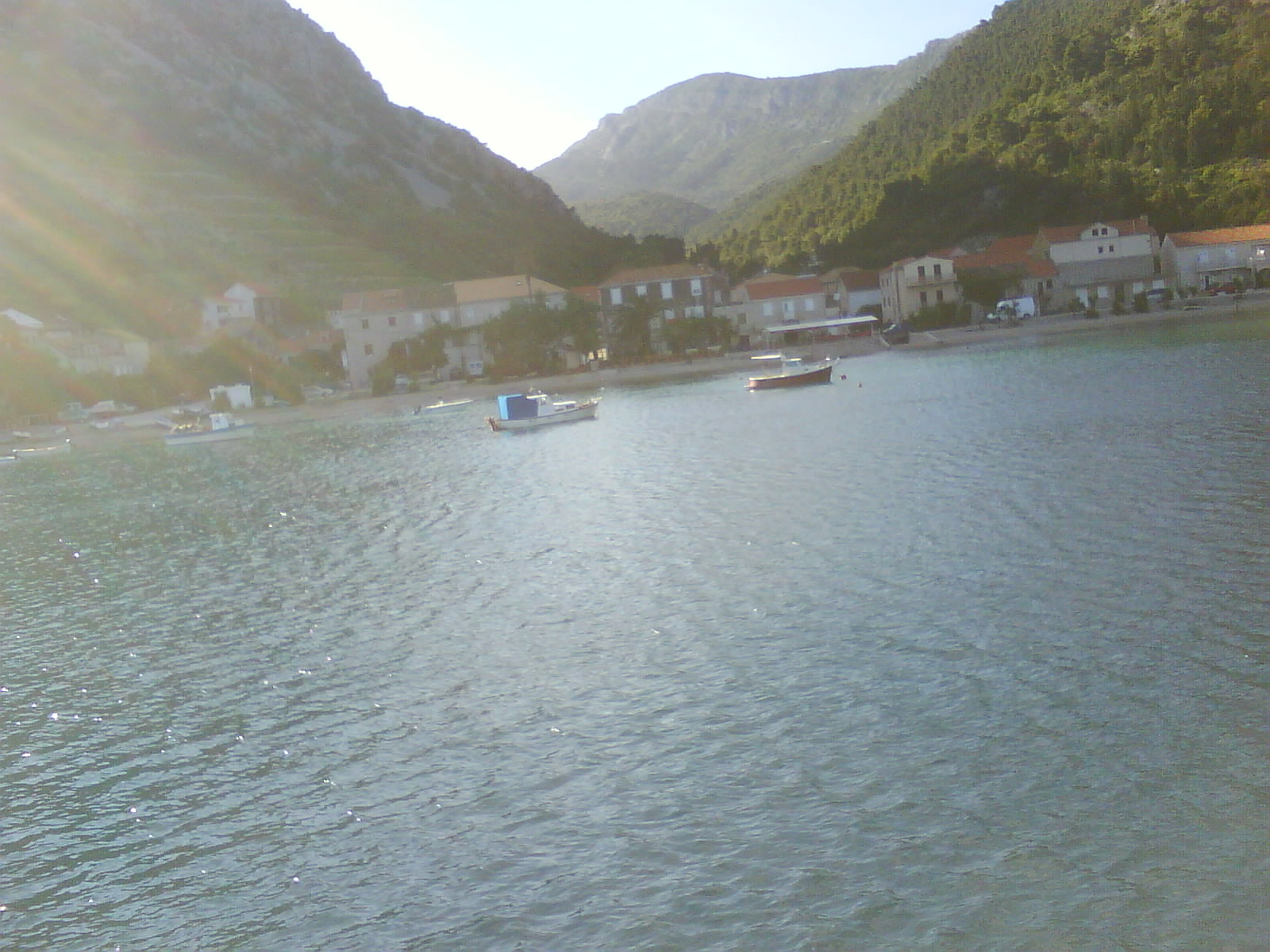 port of village Trstenik,municipality of Orebić